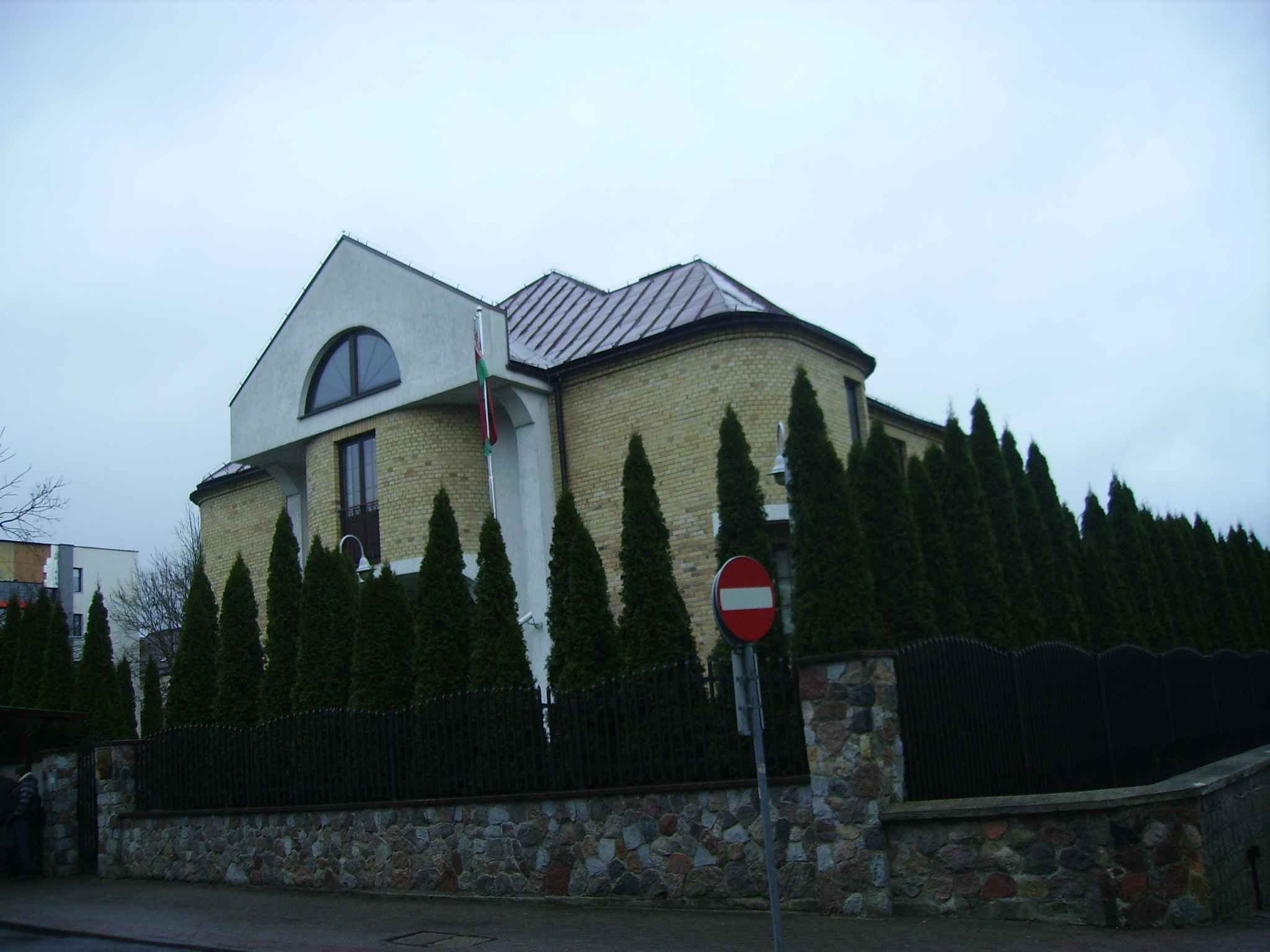 Consulate General of the Republic of Belarus in Bialystok, street Electric 9